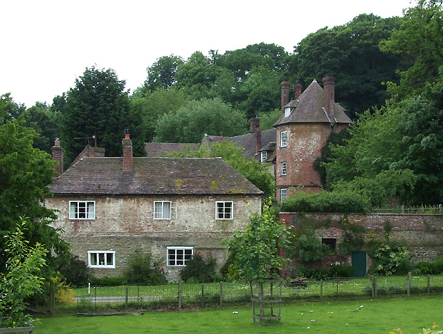 Buildings, Willey Old Hall, Shropshire, near to Willey, Shropshire, Great Britain.